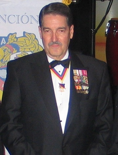 Gen. William Navas at Fi Sigma Alfa convencion